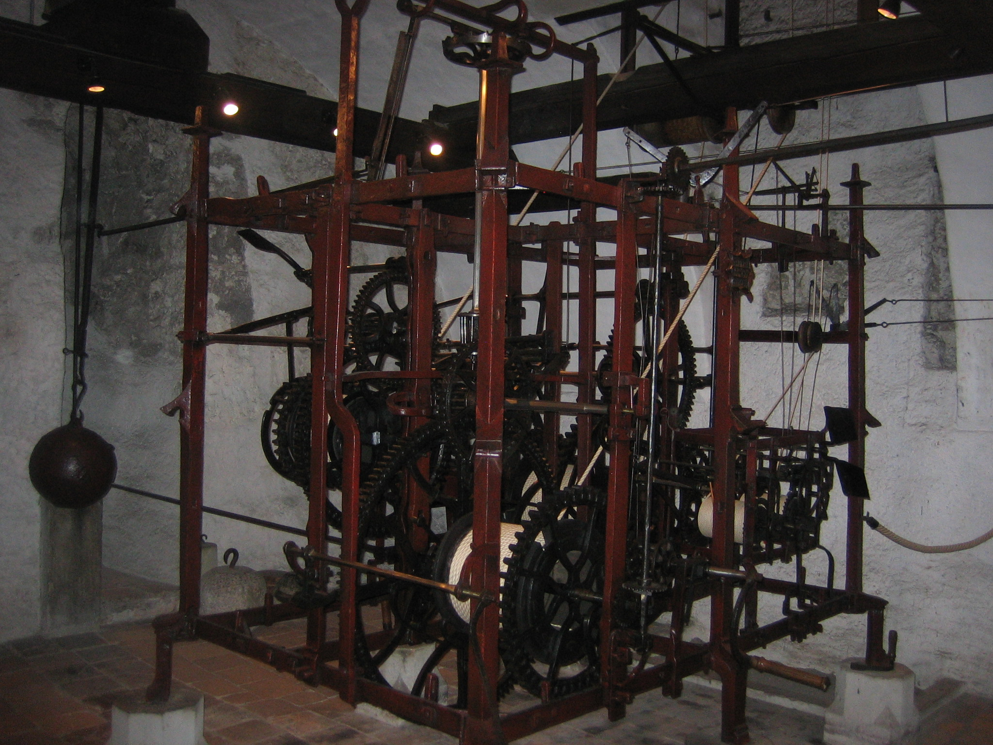 Photograph by Fortunat Mueller-Maerki, April 2008 on occasion of the 2008 horological study tour of the Antiquarian Horological Society to Switzerland. Movement of the clock at the Zytgloggen clocktower in Bern Switzerland The movement was forged in the very room it stands now in the year 1530 by clockmaker Casper Brunner and has -with appropriate maintenance- run ever since. The cannon ball on the left is the pendulum of the clock